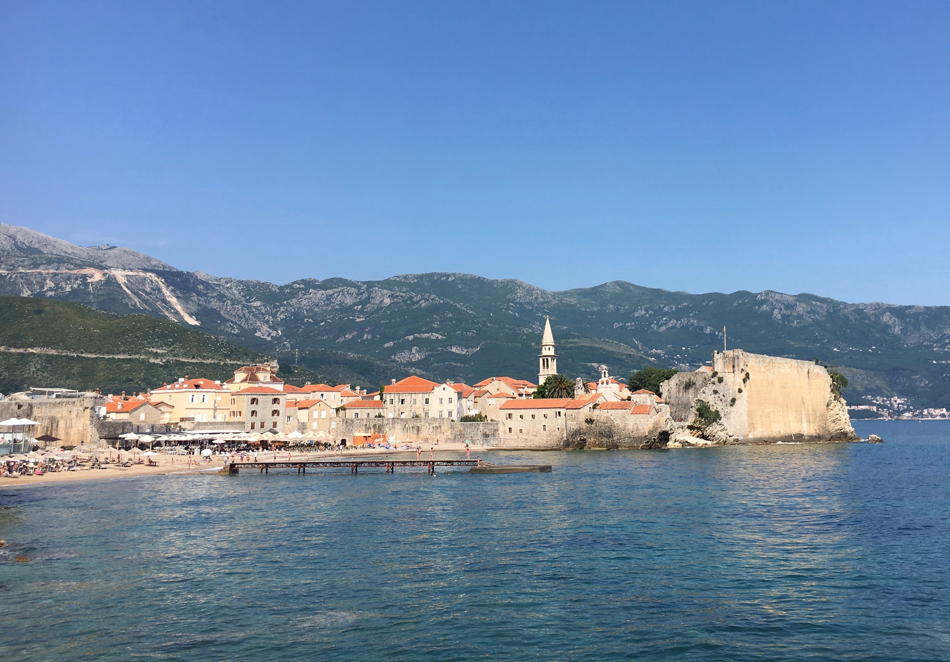 Budva Old Town and Citadel